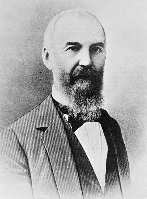 A portrait of Henry Dickerson McDaniel (1836-1926). He served as governor of Georgia from 1883-1886. Category:Georgia Institute of Technology